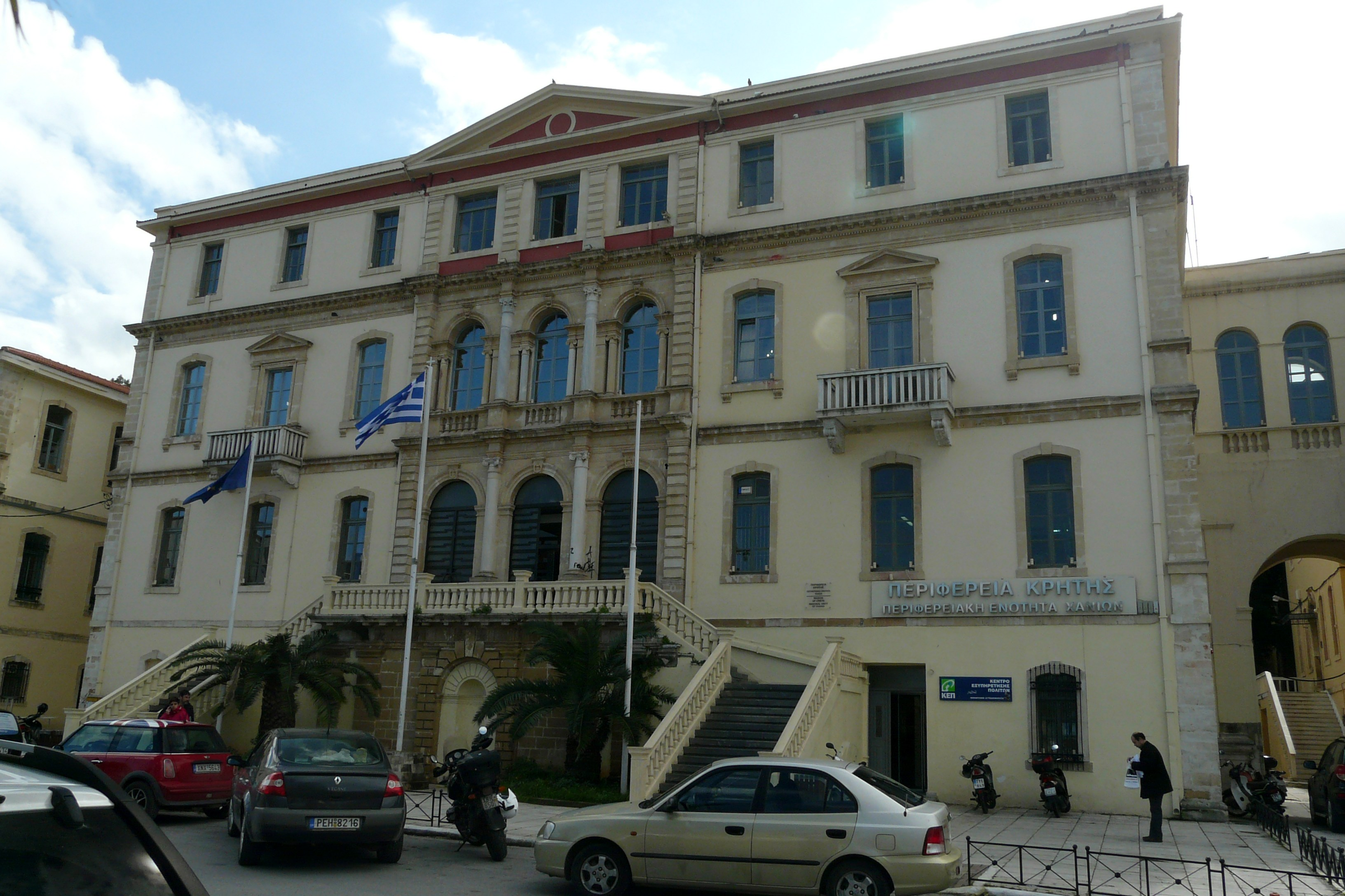 Chania Courthouse, Crete, Greece